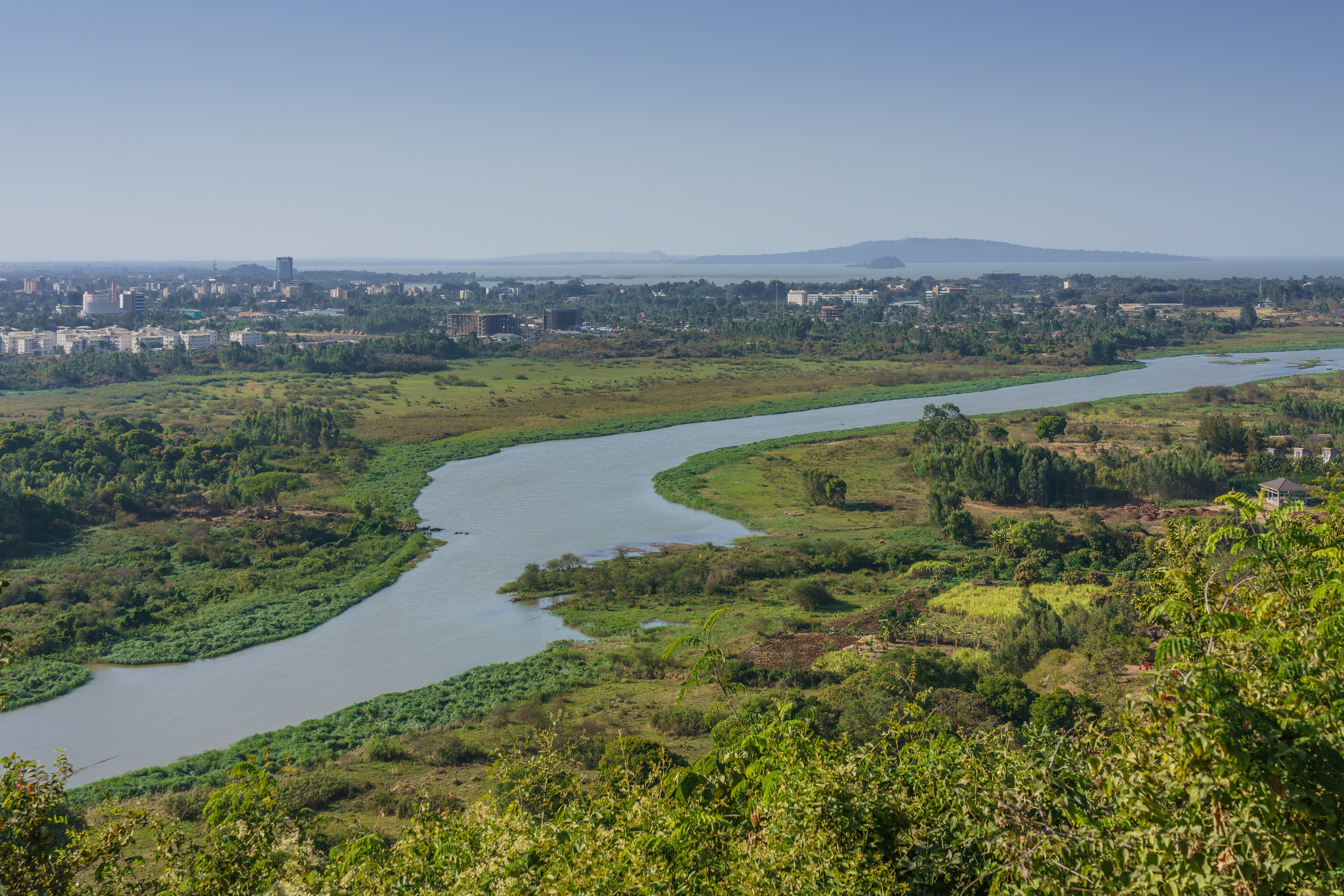 View from Bezawit Road – Blue Nile River in Bahir Dar, Ethiopia